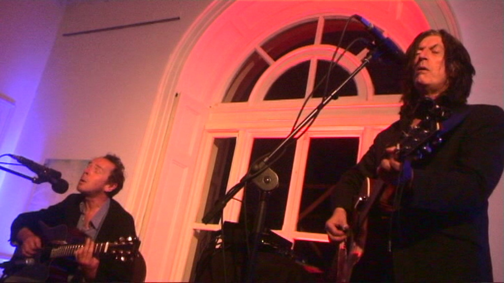 Tír na nÓg (from left to right: Sonny Condell, Leo O'Kelly) performing "Down in the City" at the Sirius Arts Centre in Cobh, Ireland on August 21st, 2009.